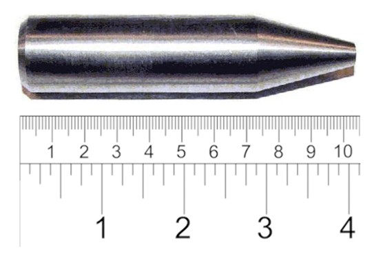 DU penetrator from the A-10 30mm round.